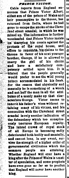 26 May 1890 newspaper cutting from Daily Northwestern newspaper